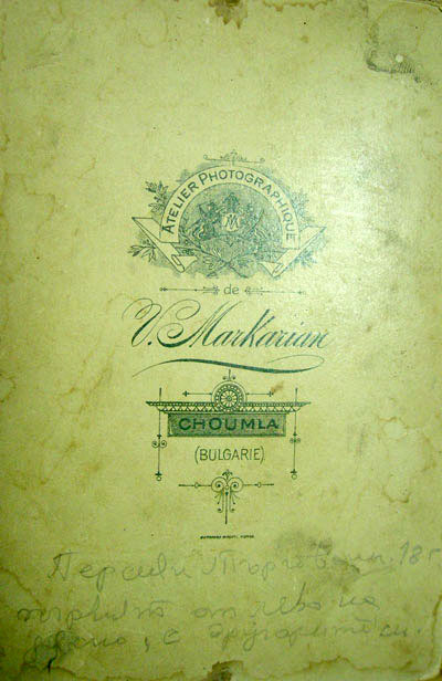 Vram Markarian Photo Studio